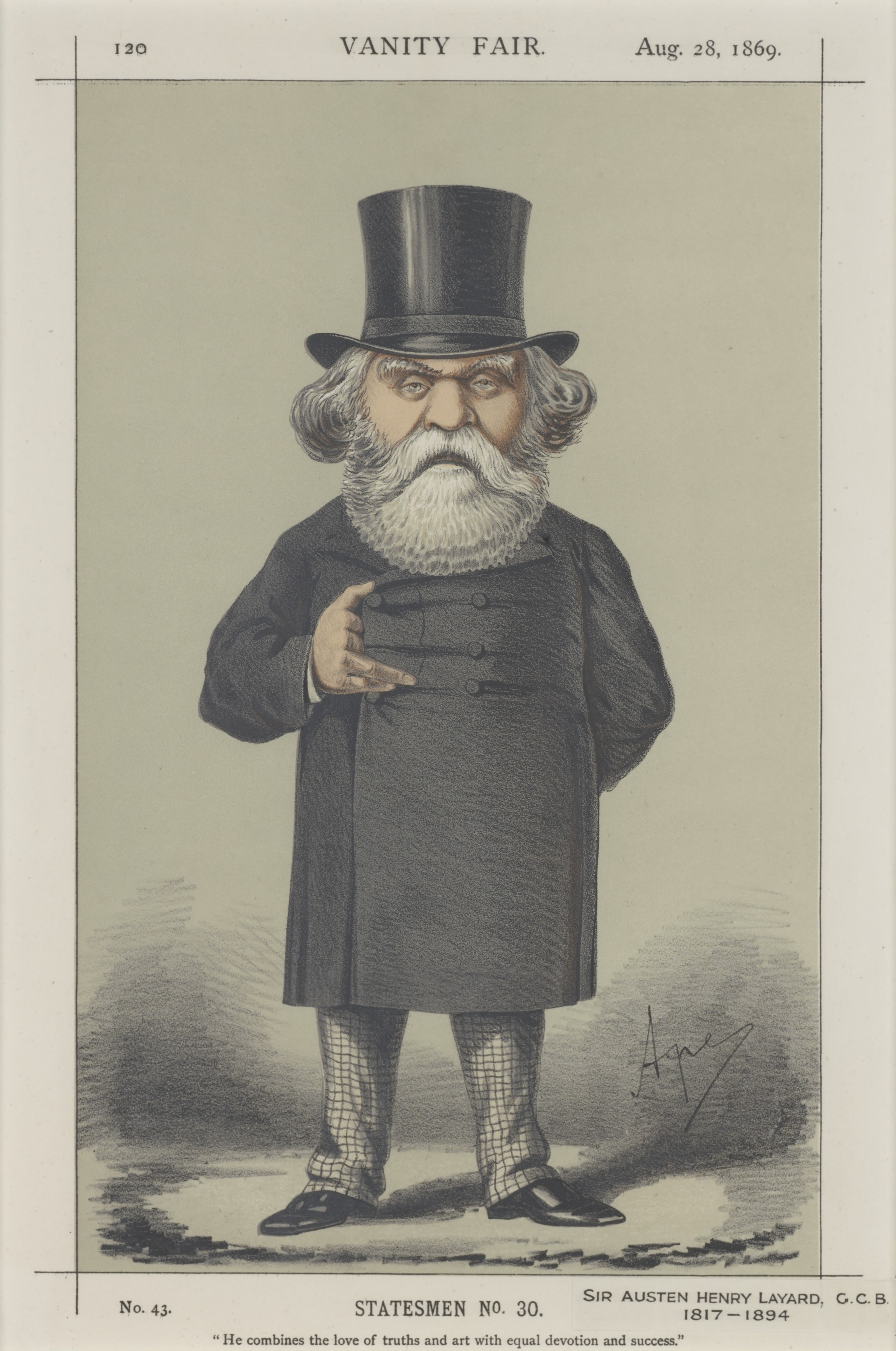 Statesmen No.30: Caricature of The Rt Hon Austen Henry Layard. Caption reads: "He combines the love of truth and art with equal devotion and success."